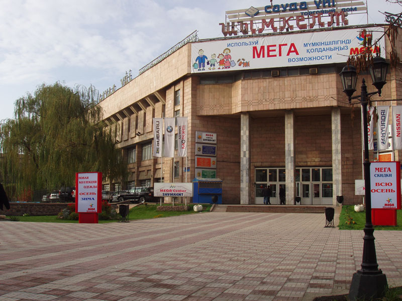 Picture taken by Michael Hancock in November of 2006 of the central shopping mall in Shymkent, called ЦУМ in the Russian/Soviet style.